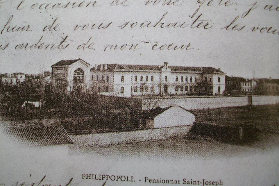 French College and church St. Joseph in Plovdiv